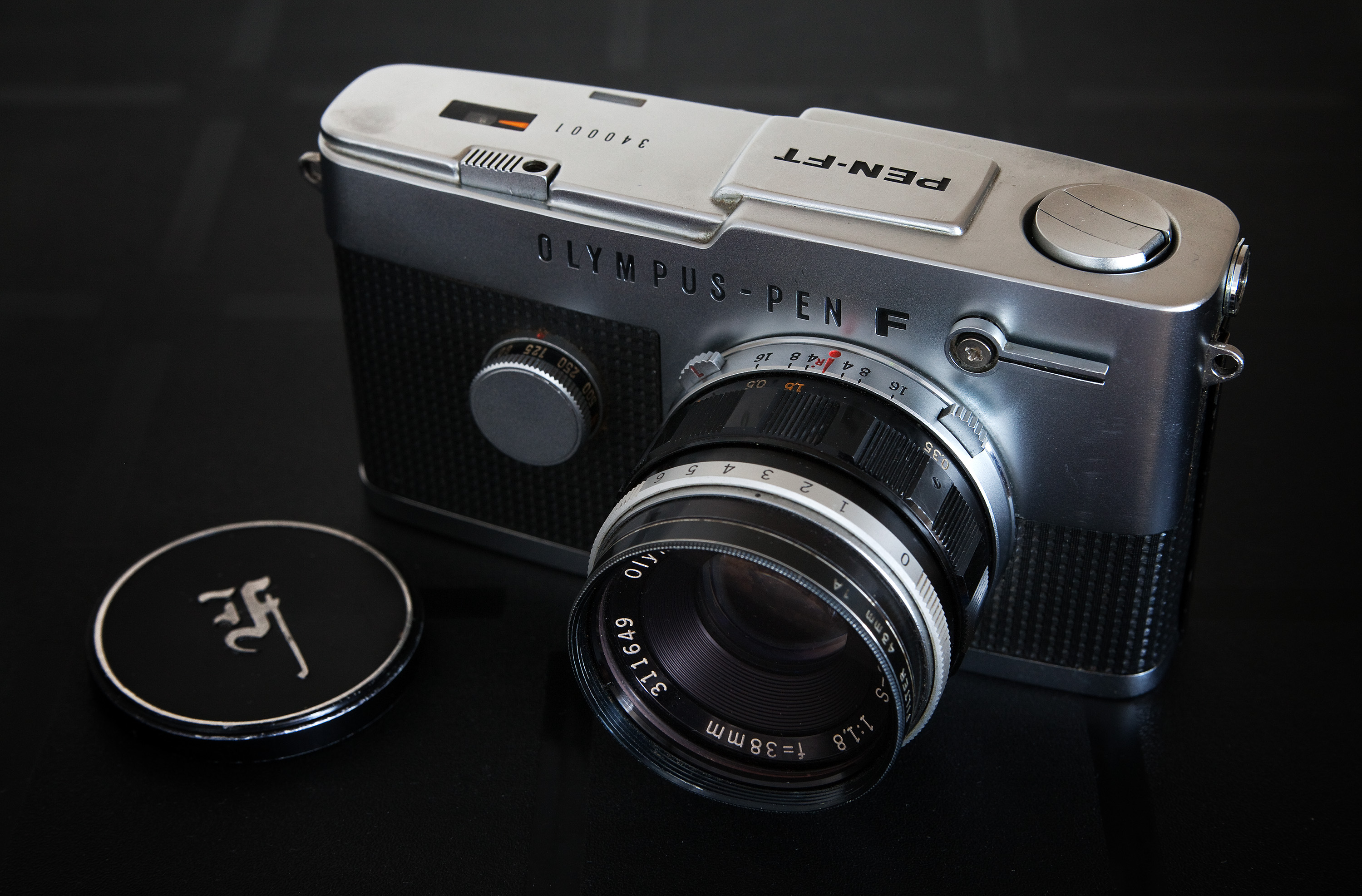 An Olympus Pen FT half-frame 35mm SLR, manufactured in 1971.